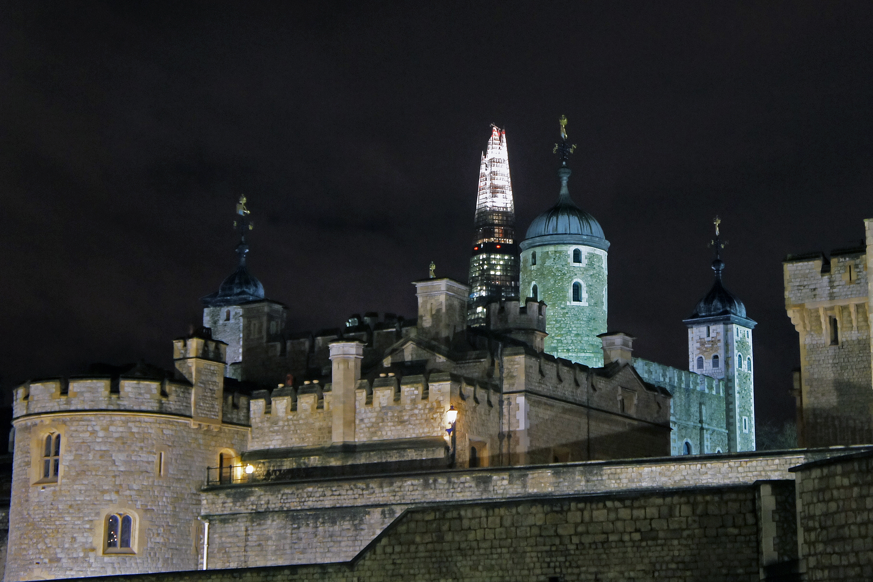 The Tower of London at night with the Shard in the background. London, UK